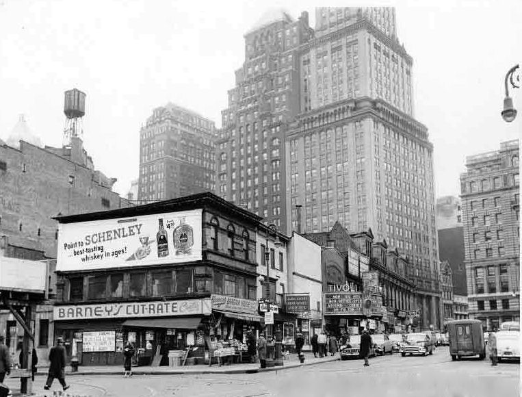 The Tivoli Theatre (formerly the Olympic Theatre) in New York in 1954